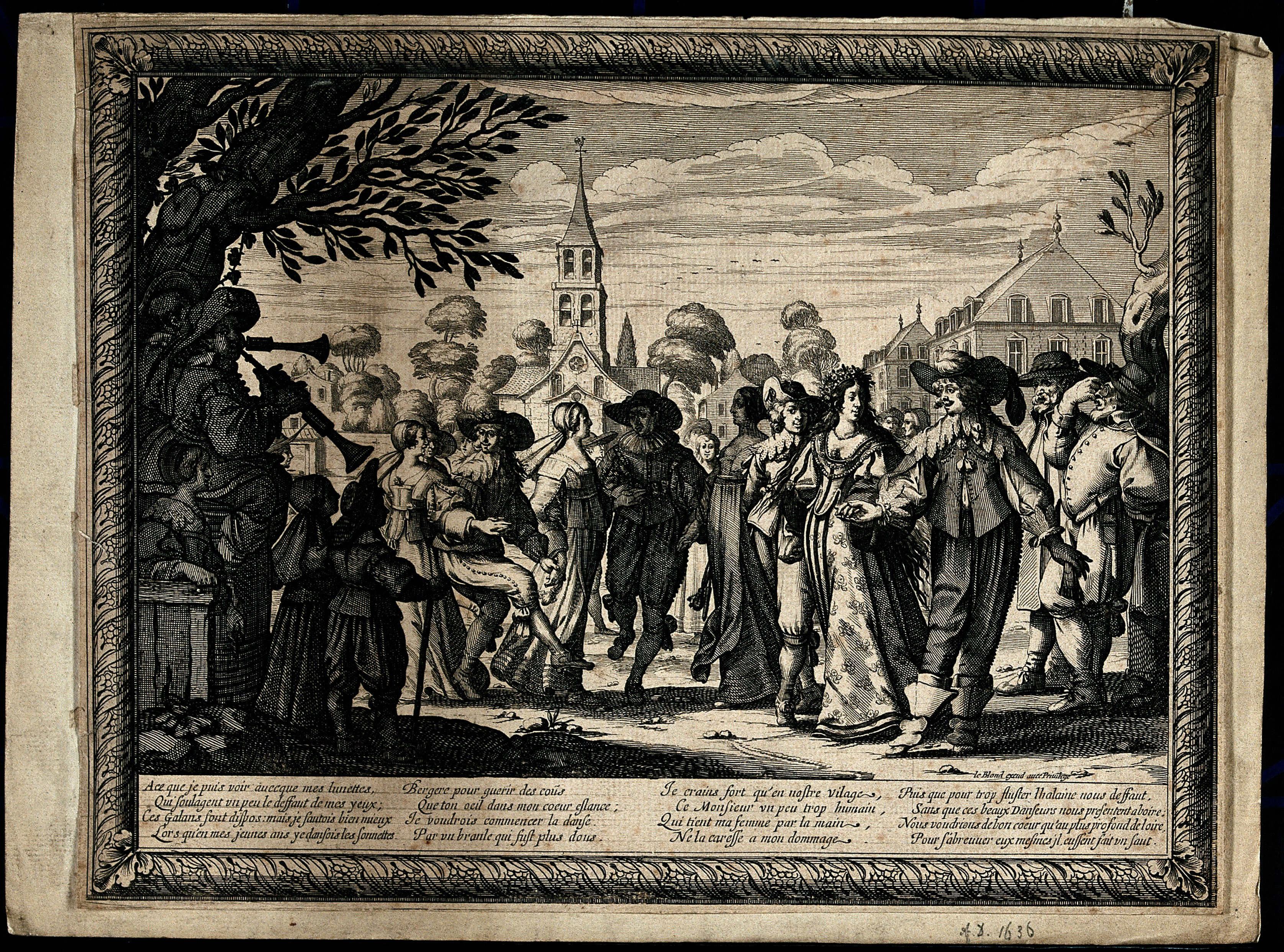 Country dance, performed by villagers. Engraving by Abraham Bosse, 1633. Iconographic Collections Keywords: Abraham Bosse